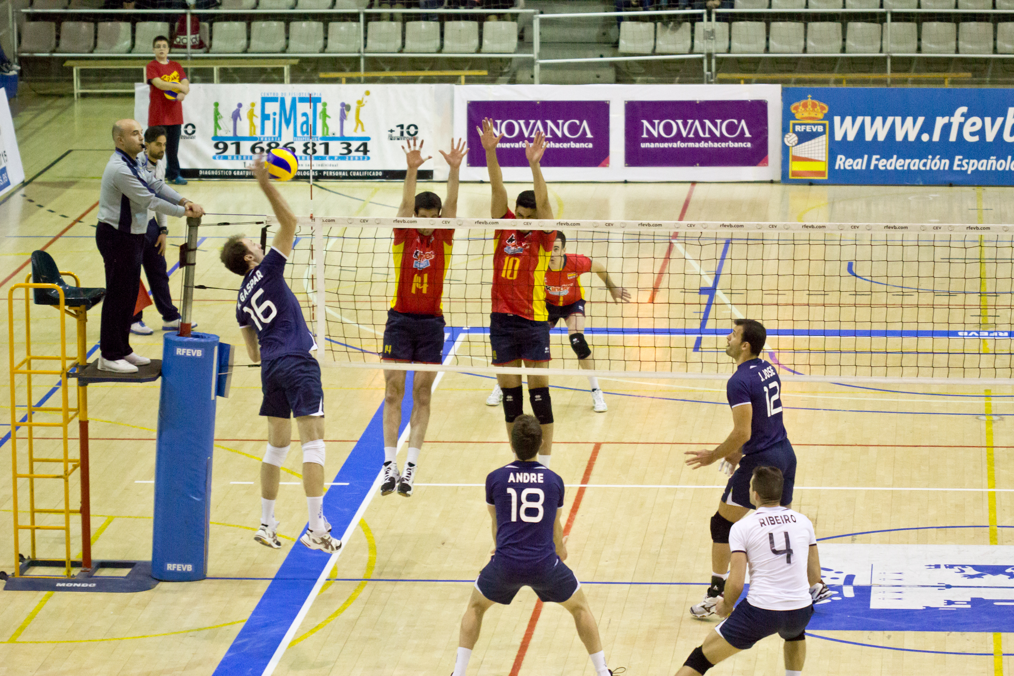 Spain vs Portugal volleyball game in Leganés, Spain.